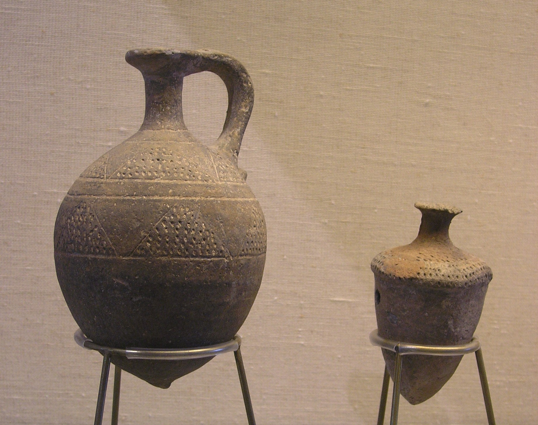 Tell el-Yahudiah Ware, Middle Bronze II (Canaanite) Period (2000 - 1550 BC), Hecht Museum, Jerusalem